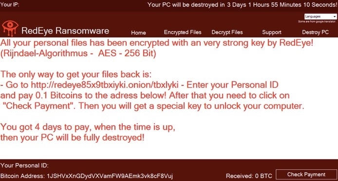 RedEye´s interface